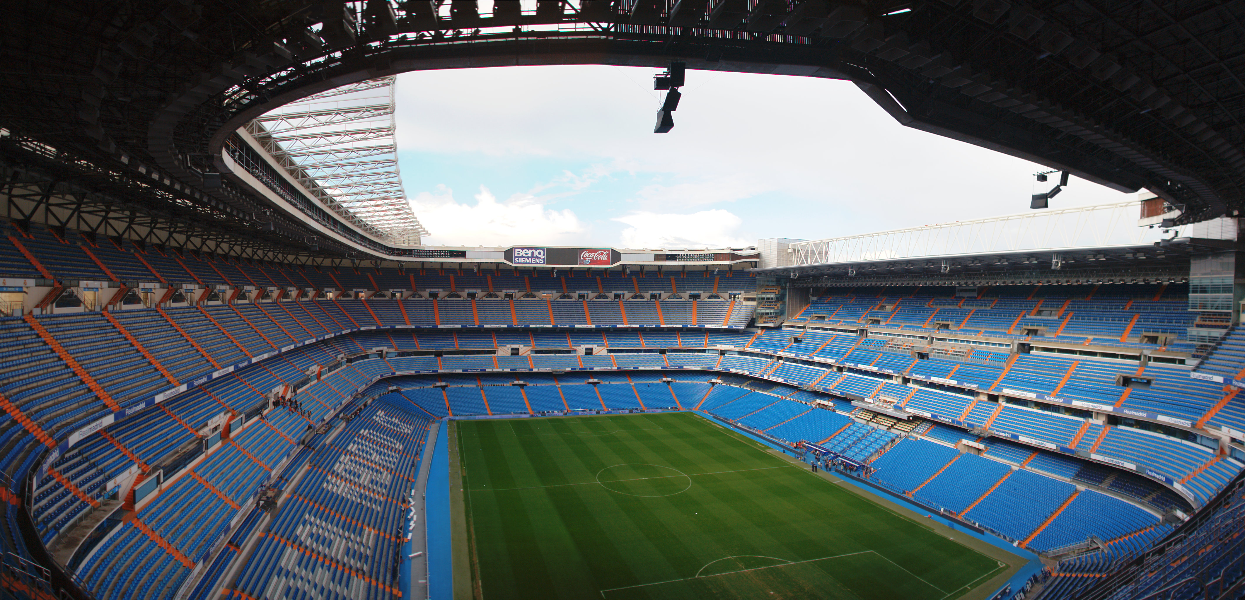 alternate version of a previously uploaded image (a bit brighter/more lively looking) the original is here